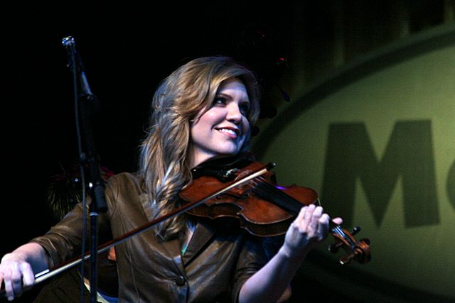 American country/bluegrass musician Alison Krauss performing at MerleFest, Wilkes Community College, Wilkes County, North Carolina. Photo by Forrest L. Smith, III.